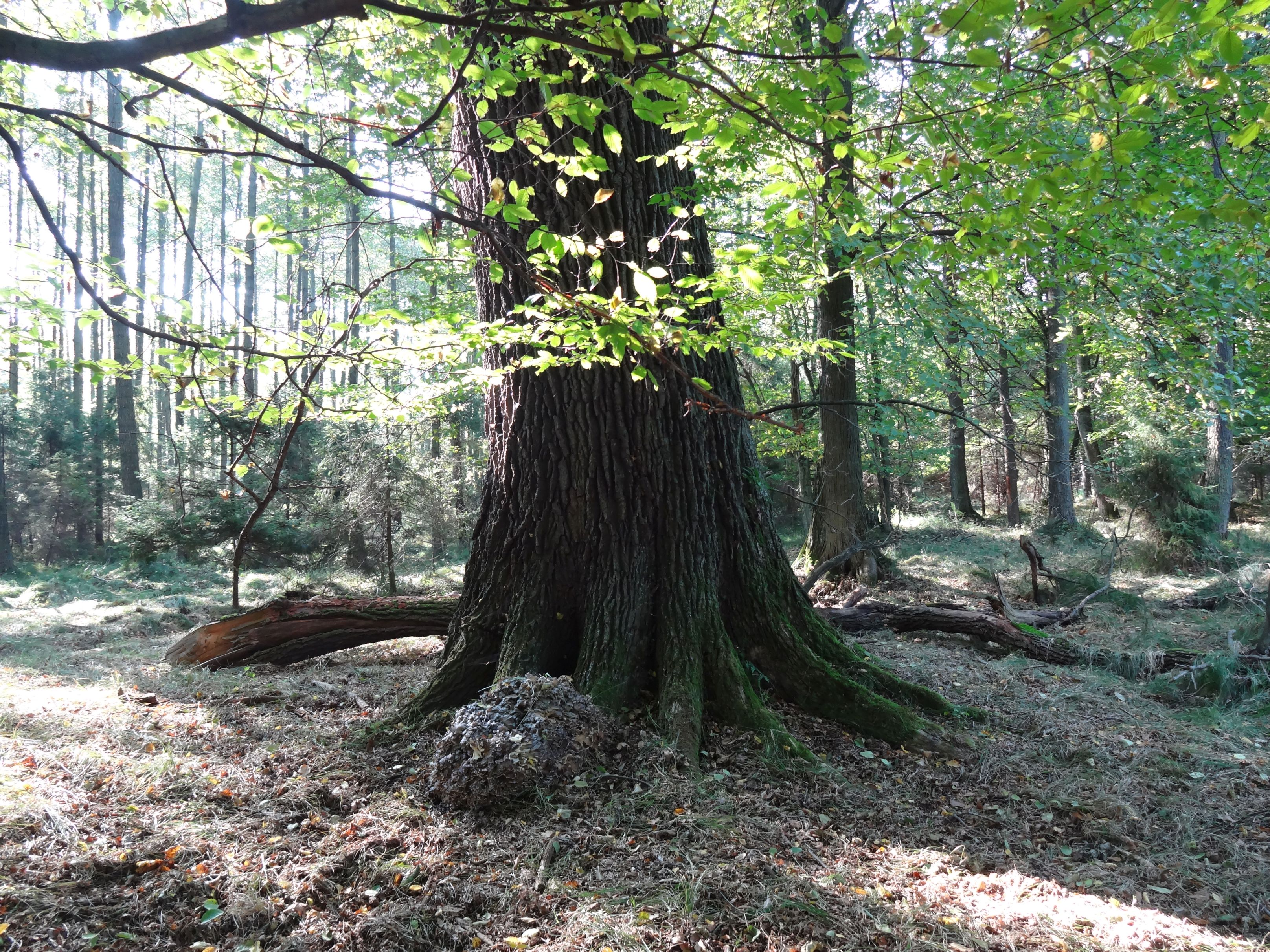 Pomnik przyrody Tworóg Mikołeska dąb